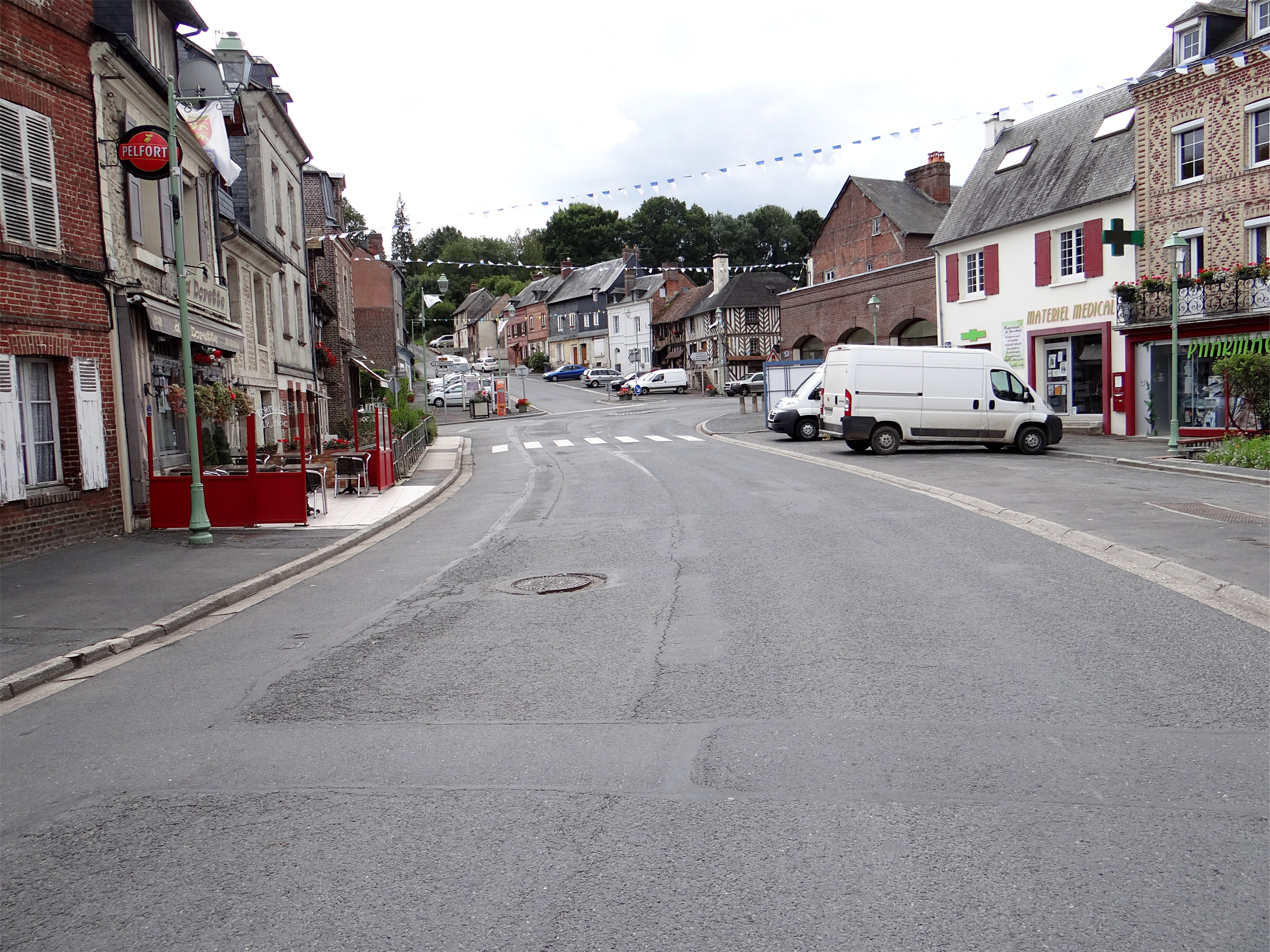 Central street Bonnebosq, Calvados, France.